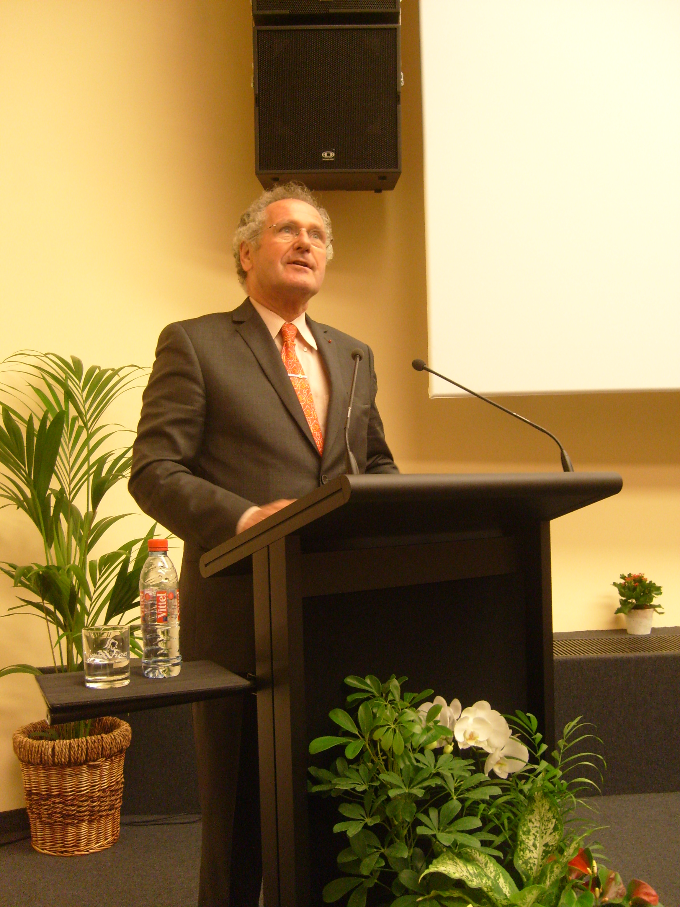 Mayor Paul Helminger at the first conference in the new conference center of the the city of Luxembourg.